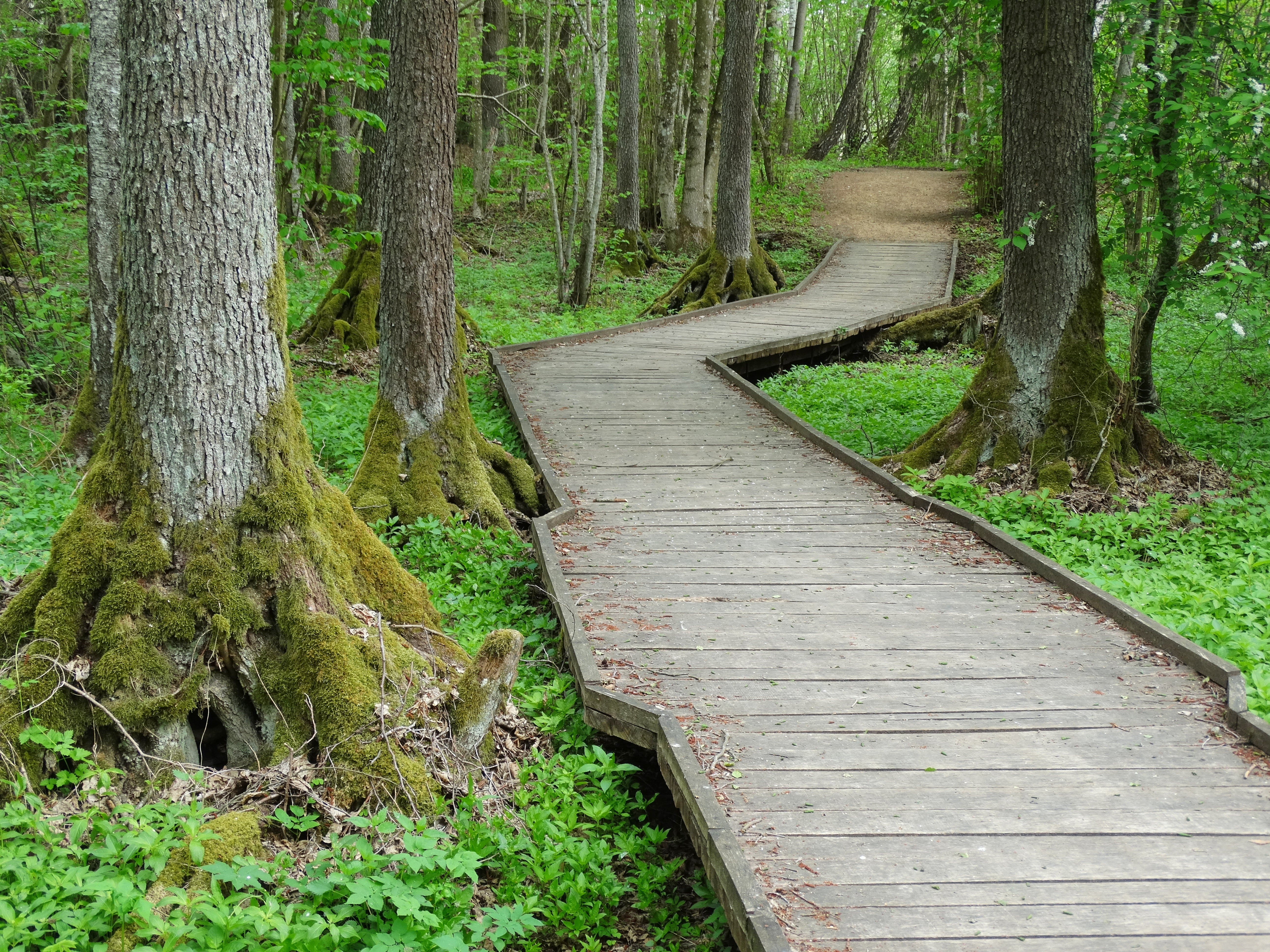 Rozalimas forest, educational walkway, Pakruojis District, Lithuania